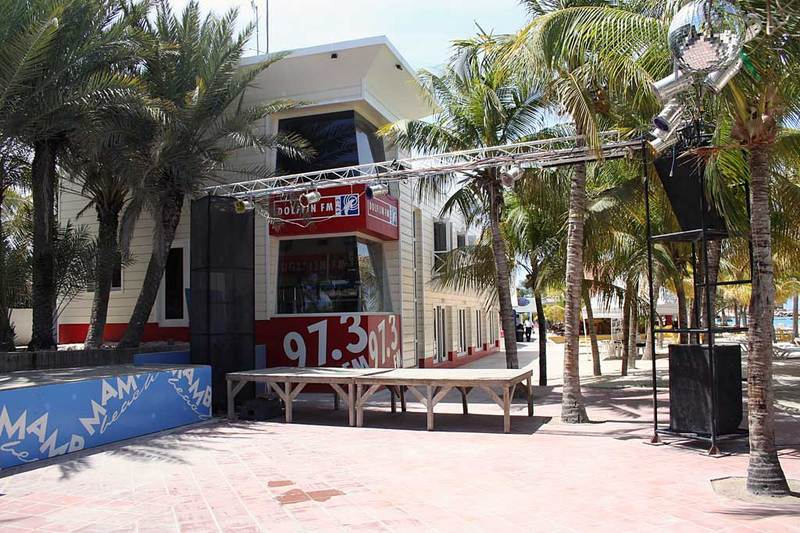 Studio on Seaquarium Beach of the radiostation Dolfijn FM on the Caribbean island of Curaçao.